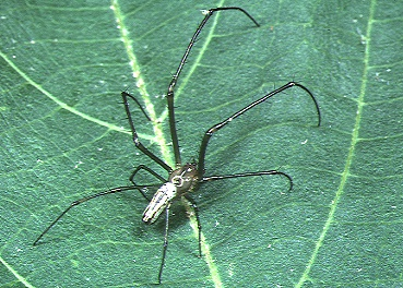 male Leucauge blanda from Okinawa.